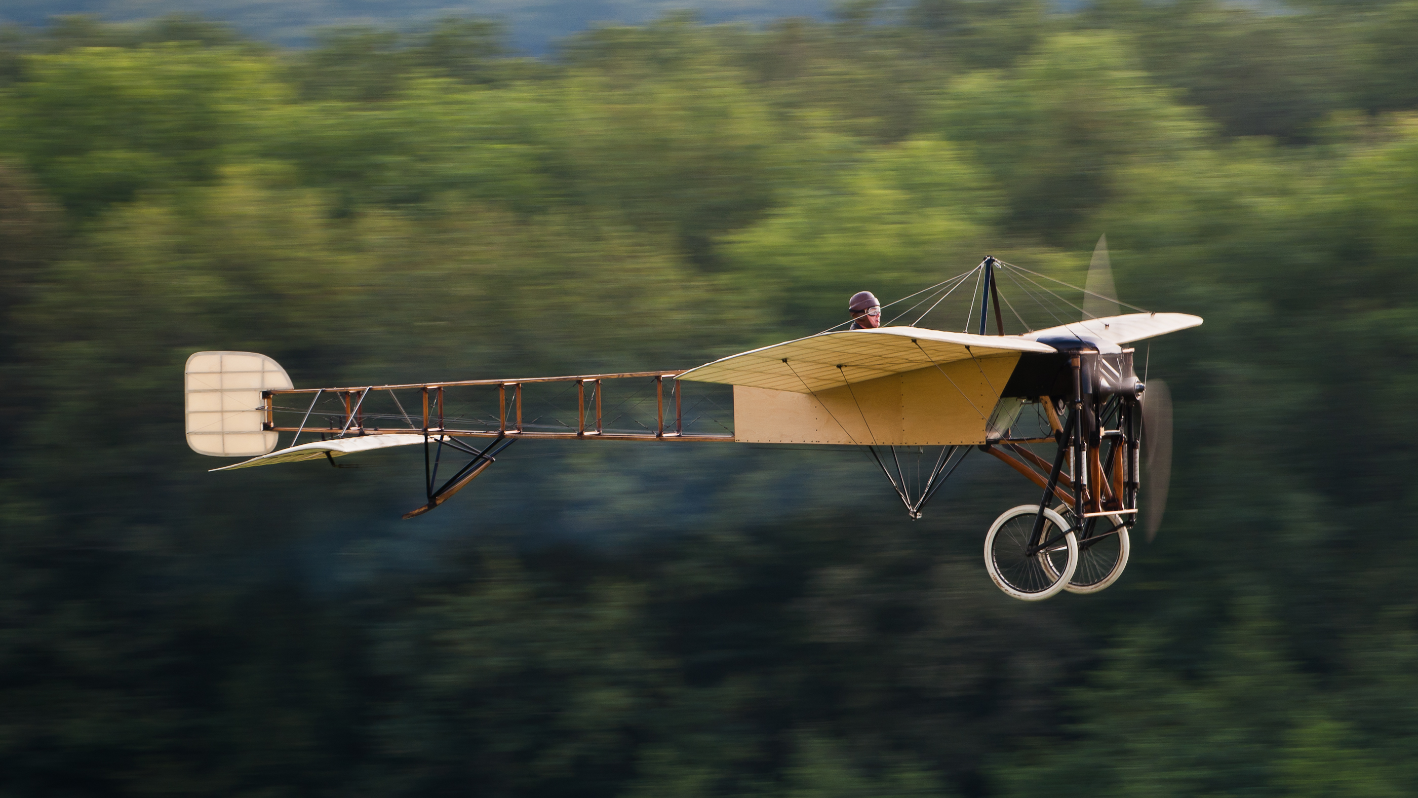 Mikael Carlson's Blériot XI/Thulin A 1910 (first takeoff after restoration: 1991, 7-cylinder Gnôme-Omega 50 hp rotary engine).